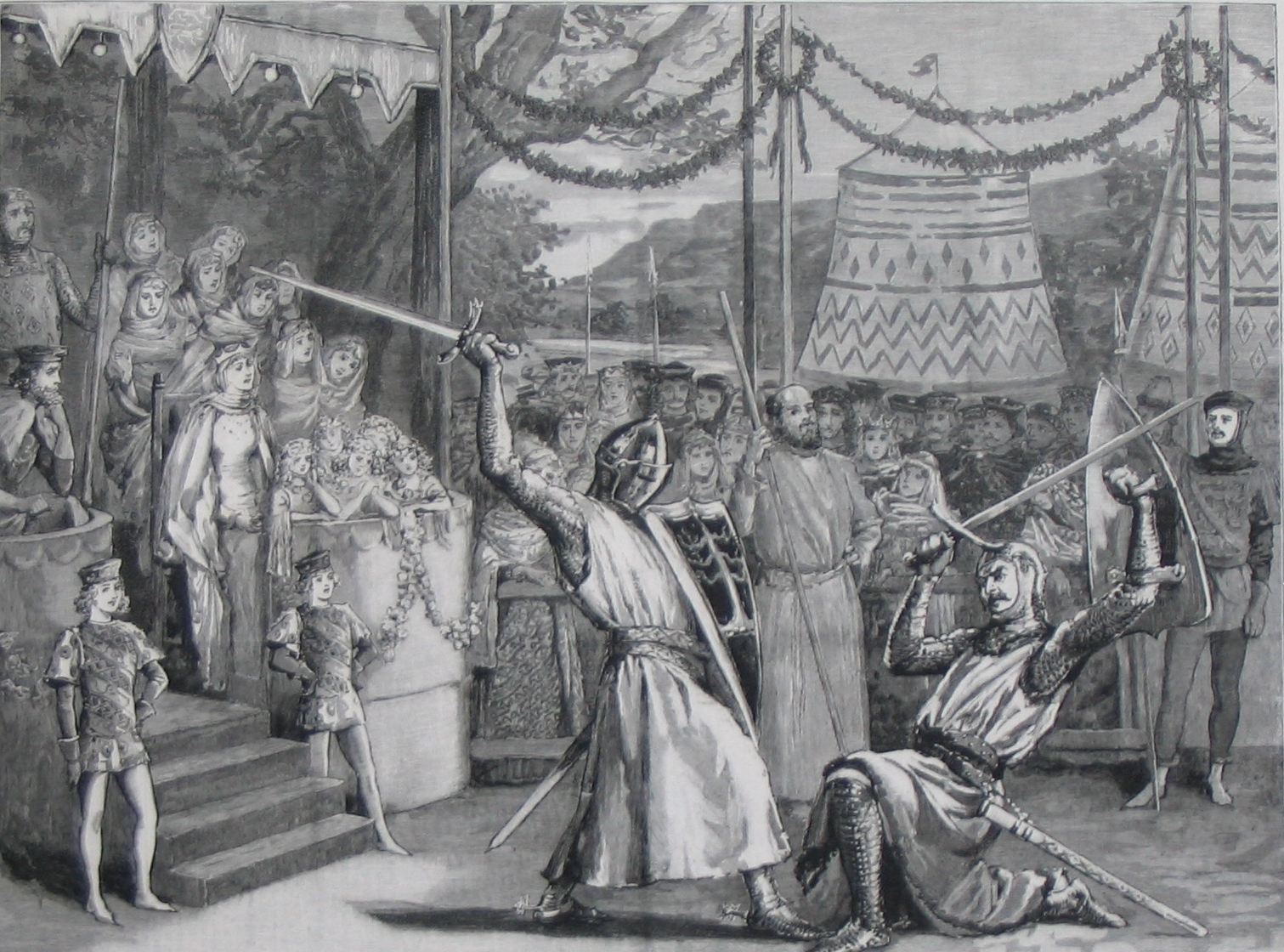 1891 illustration of Ivanhoe in The Graphic